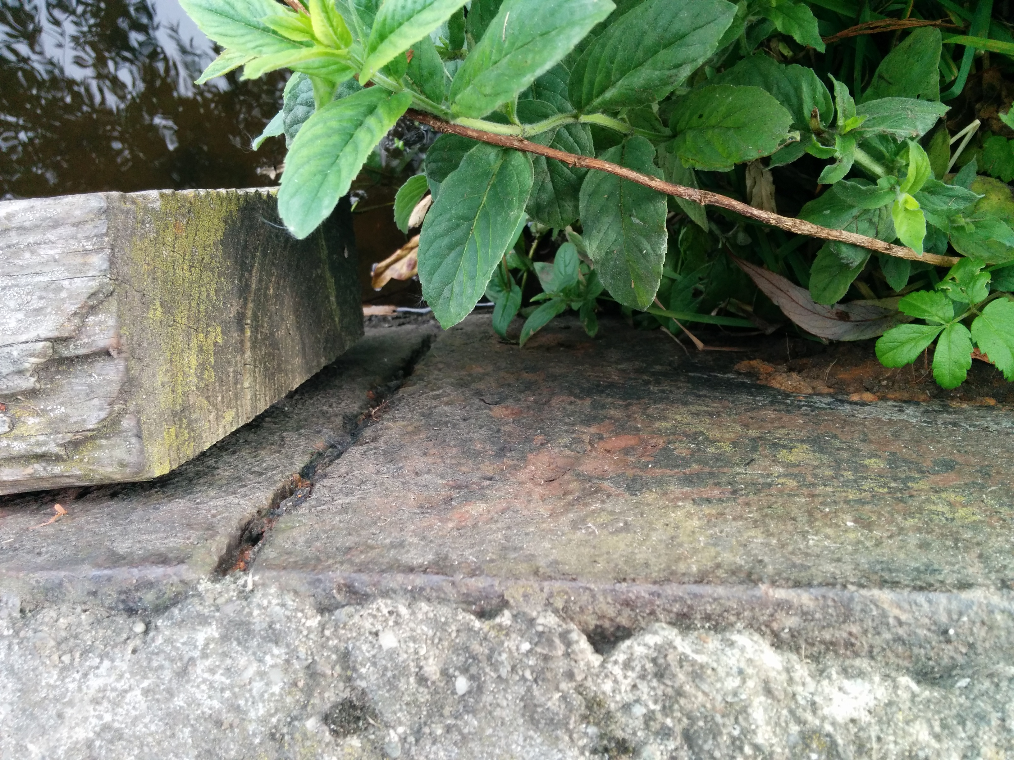 A joint in the iron trough at the western end of the aqueduct.